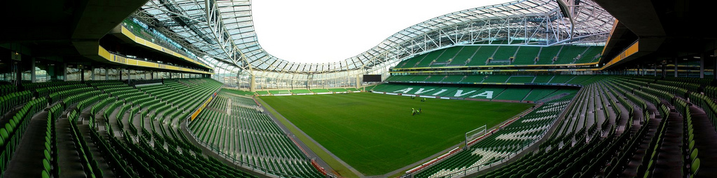 Aviva Stadium Panoramic Photo taken during MeeGo Conference 2010.